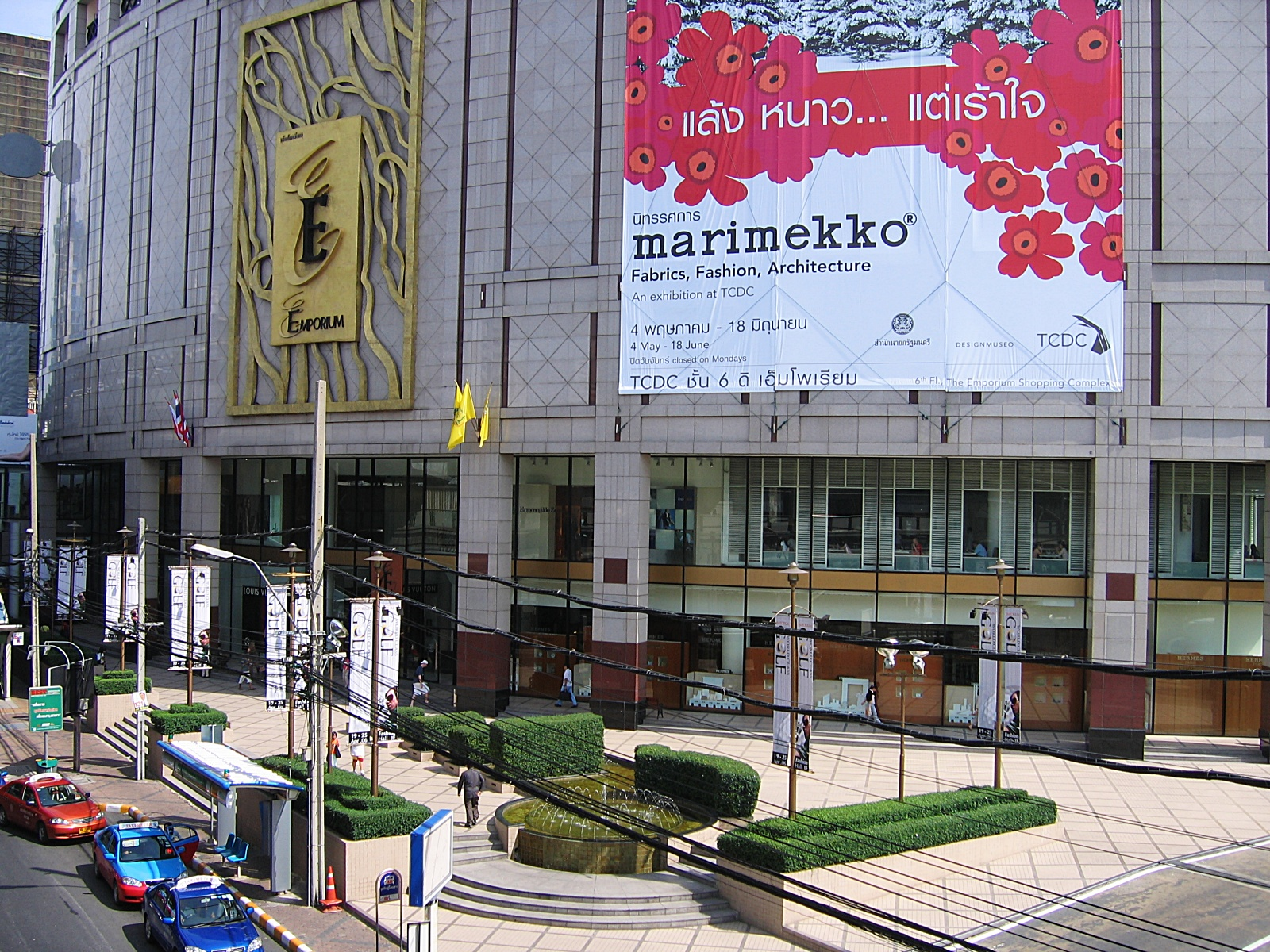 The Emporium, Bangkok, Thailand